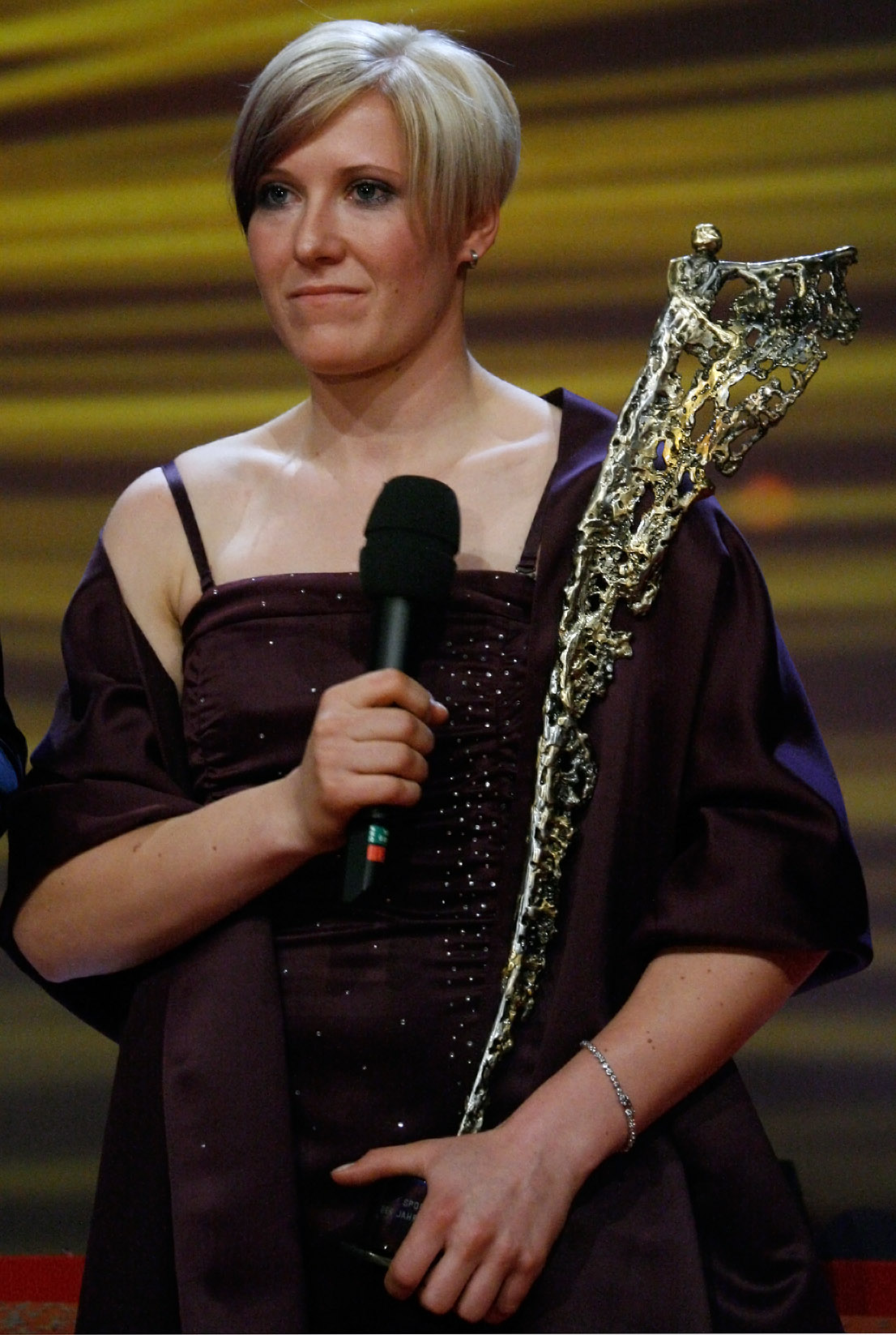 Andrea Fischbacher with her award at the presentation of the Austrian Sportspersonalities of the Year 2010 (Eventhotel Pyramide in Vösendorf, Lower Austria).